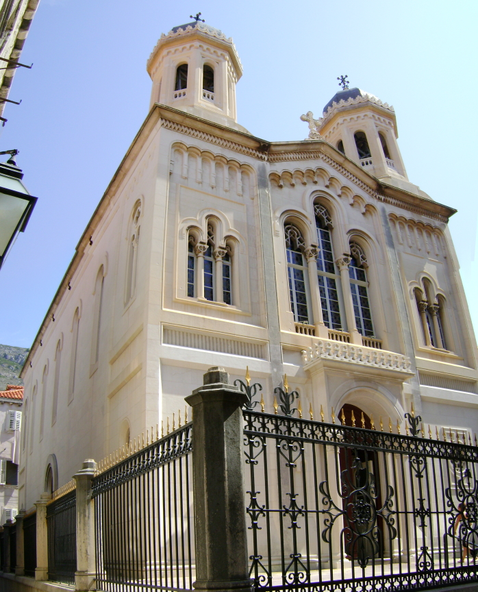 The Orthodox Church of the Santissima Annunziata, Dubrovnik, Croatia